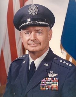 General John W. Vogt, Jr